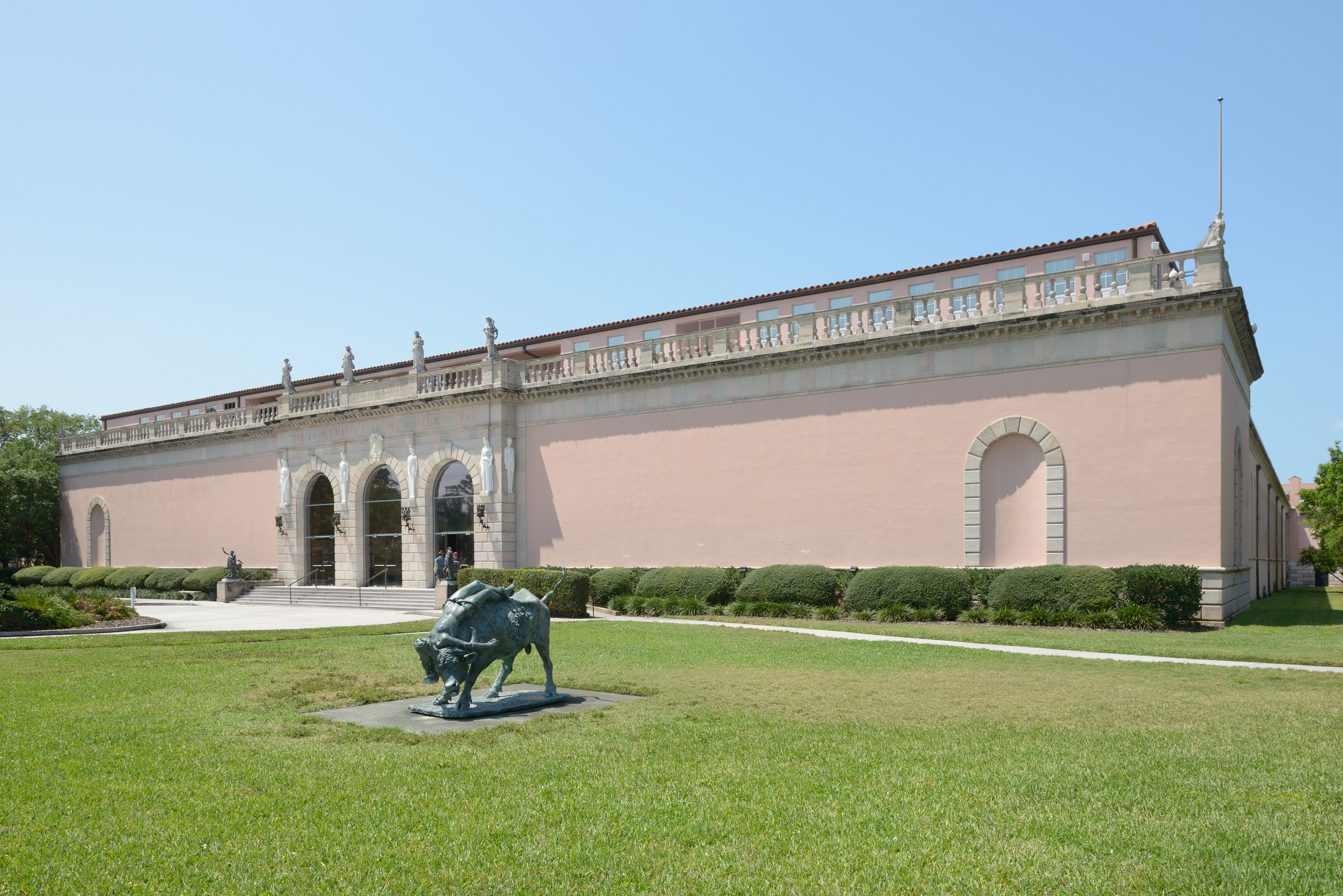 Entrance to the John and Mable Ringling Museum of Art in Sarasota in Florida. Up front statue of Lygea tied to the bull by Giuseppe Moretti